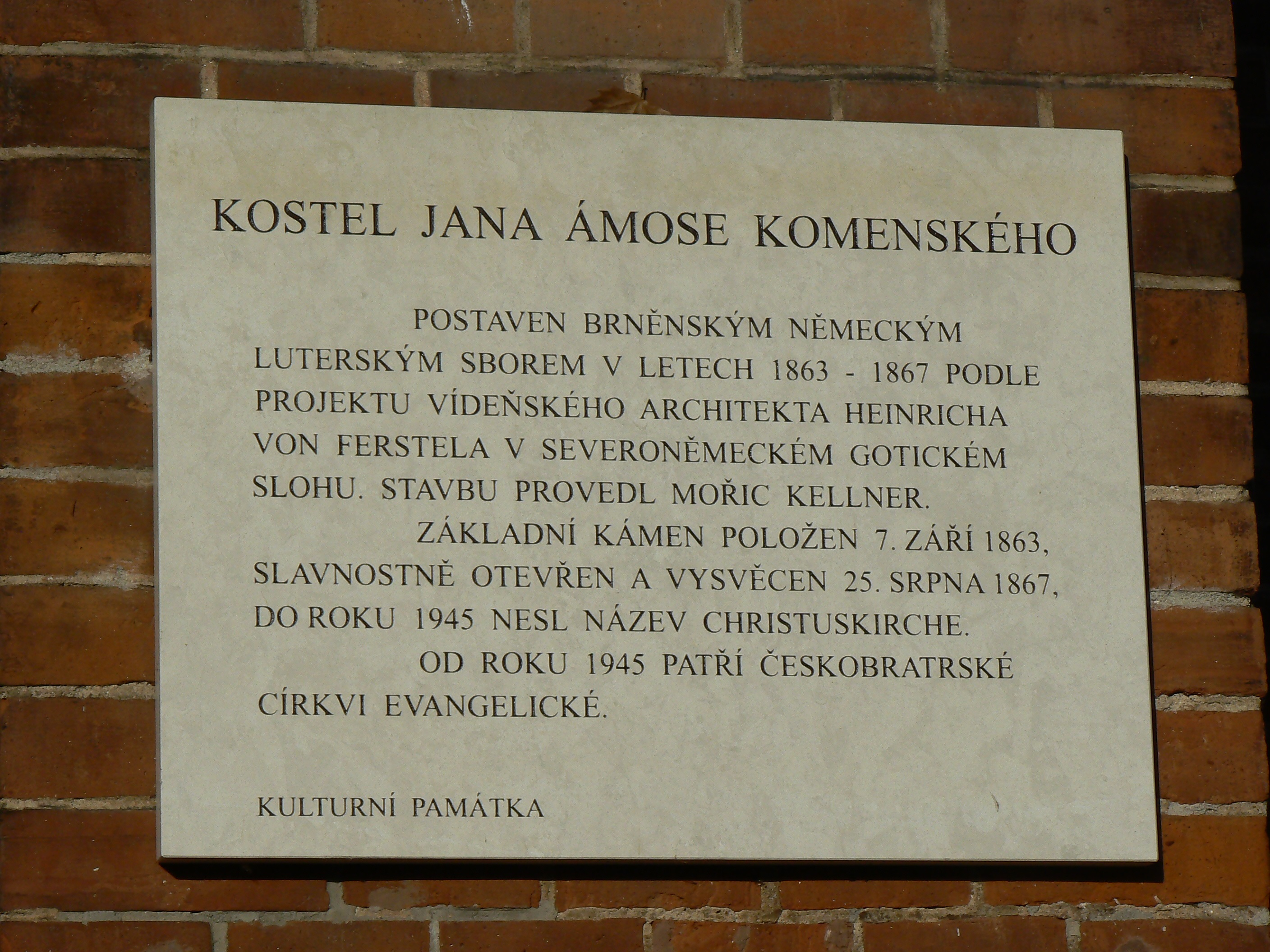 Inscription on the "Jan Amos Komensky" Evangelic church of the Czech Brethren (The Red Church) in Brno, Czech Republic